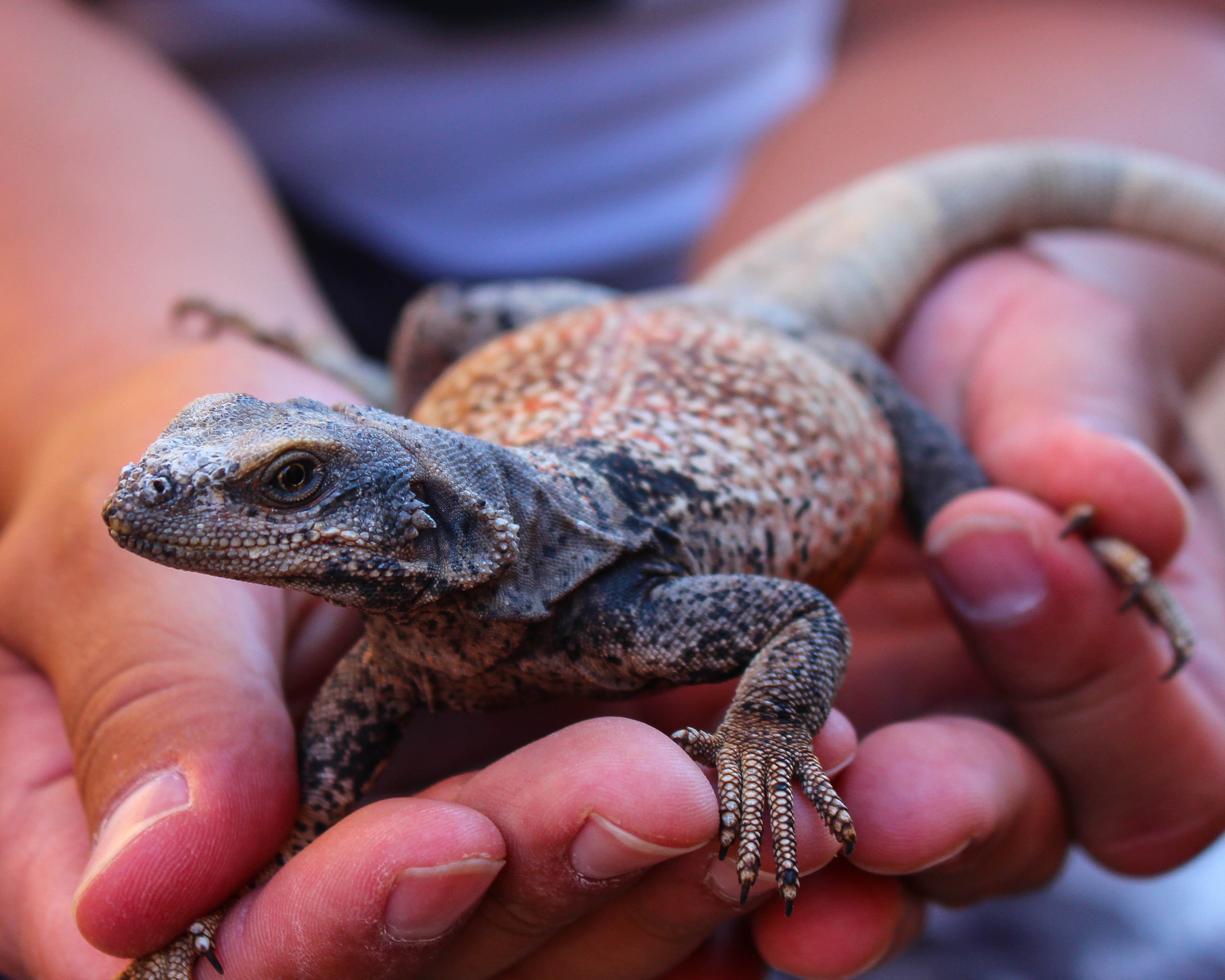 Chuckwalla (Sauromalus ater), San Bernardino County, CA.